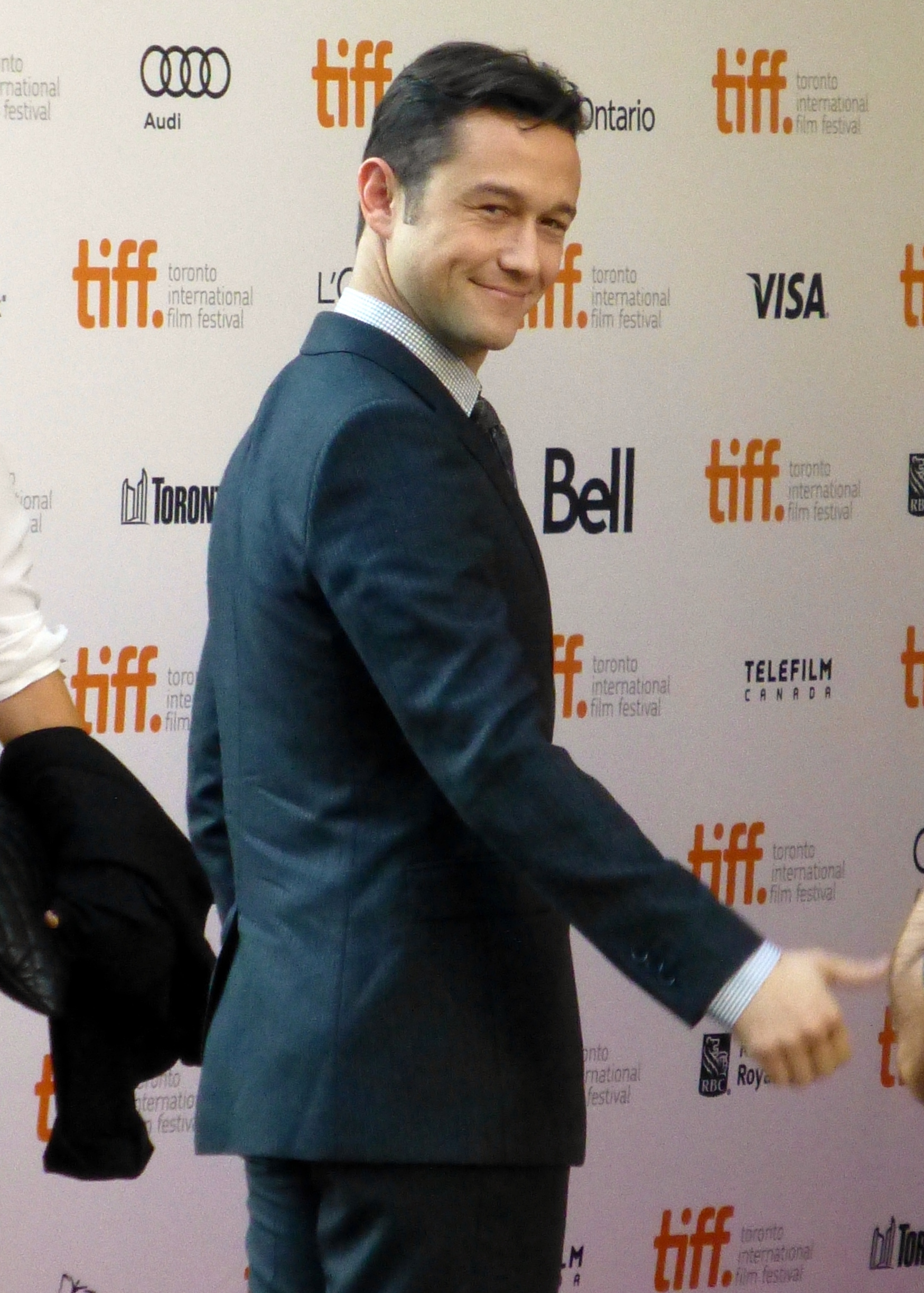 Closeup of the previous shot. Joseph Gordon-Levitt at the Premiere of Don Jon, 2013 Toronto Film Festival